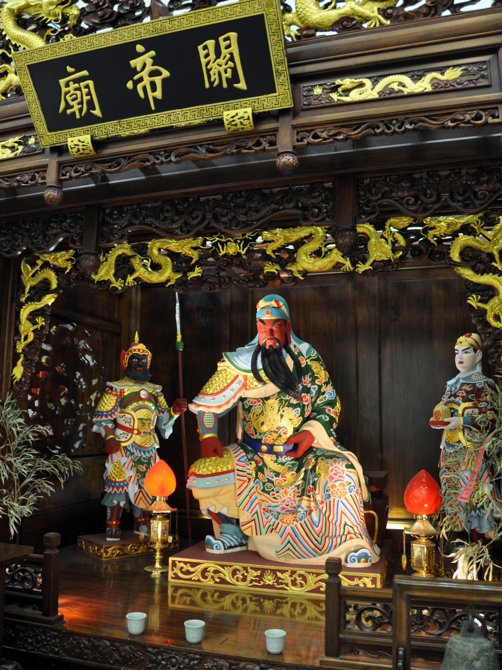 Statue of Guan Yu at the Temple of Guandi (a Chinese temple) of Osaka, Japan.